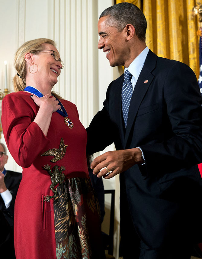 President Barack Obama presents the Presidential Medal of Freedom to actress Meryl Streep during a ceremony in the East Room of the White House, Nov. 24, 2014. (Official White House Photo by Pete Souza)